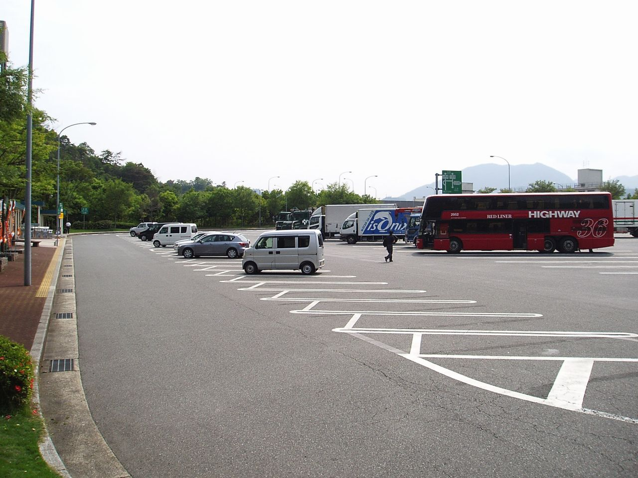 Numata Parking Area on the Sanyo Expressway outbound line for Yamaguchi